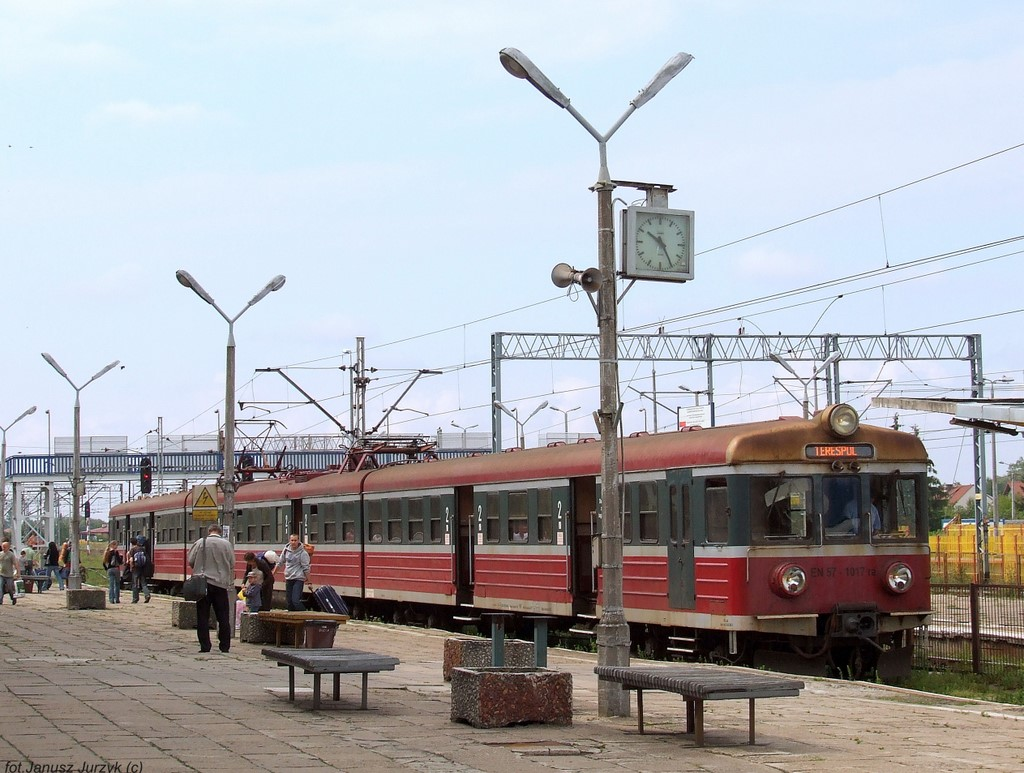 Train stations in Terespol.